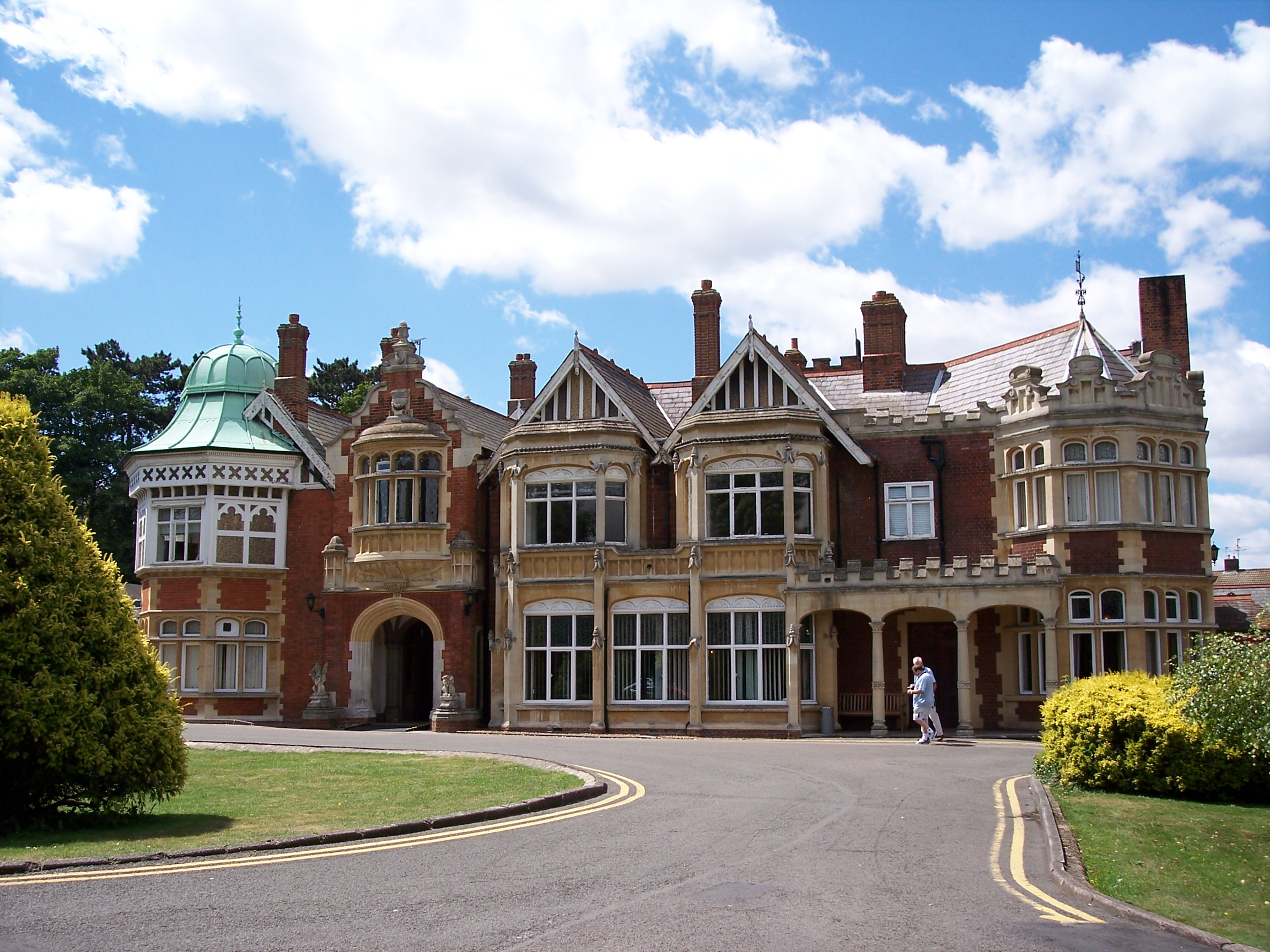 Bletchley Park, Milton Keynes.